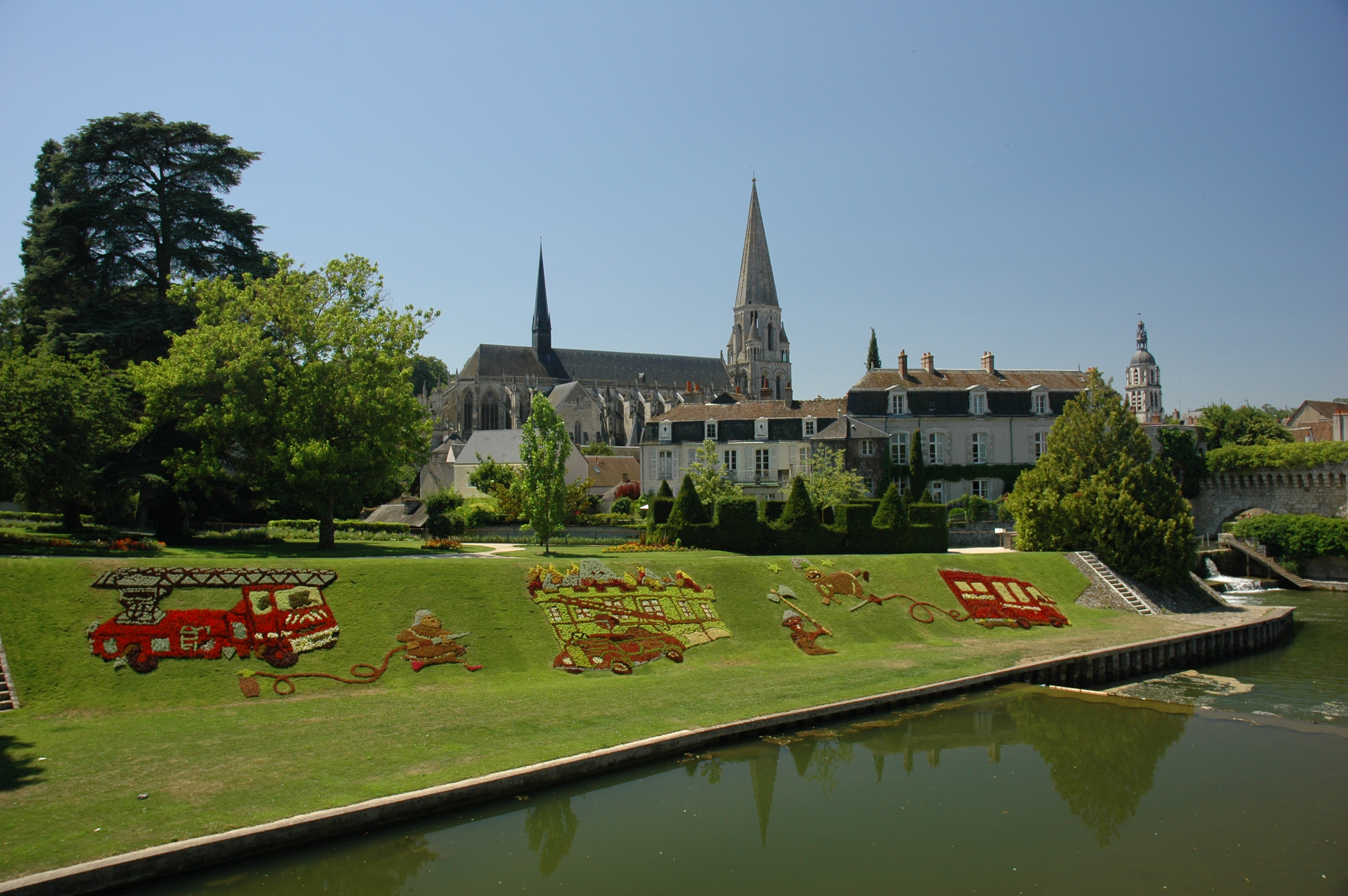 Vendôme, Loir-et-Cher, France